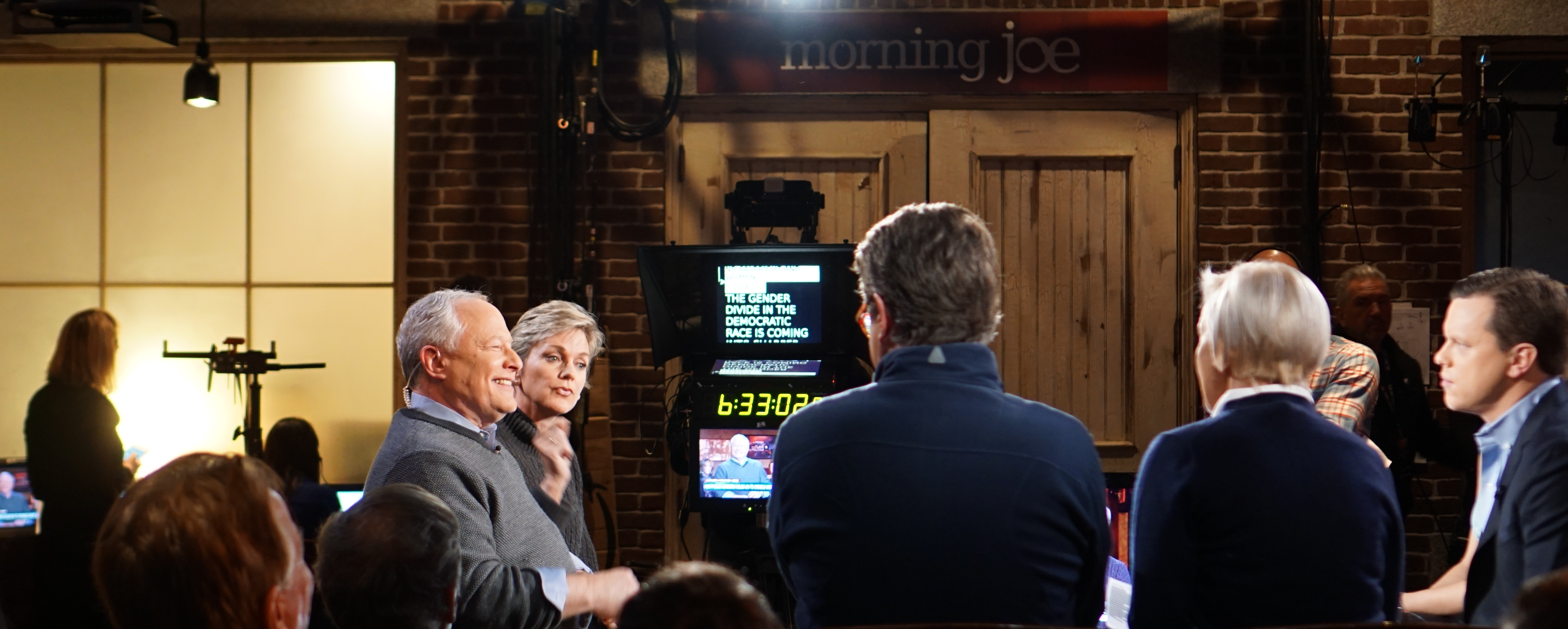 2016.02.08 Morning Joe, Manchester, NH USA 02630